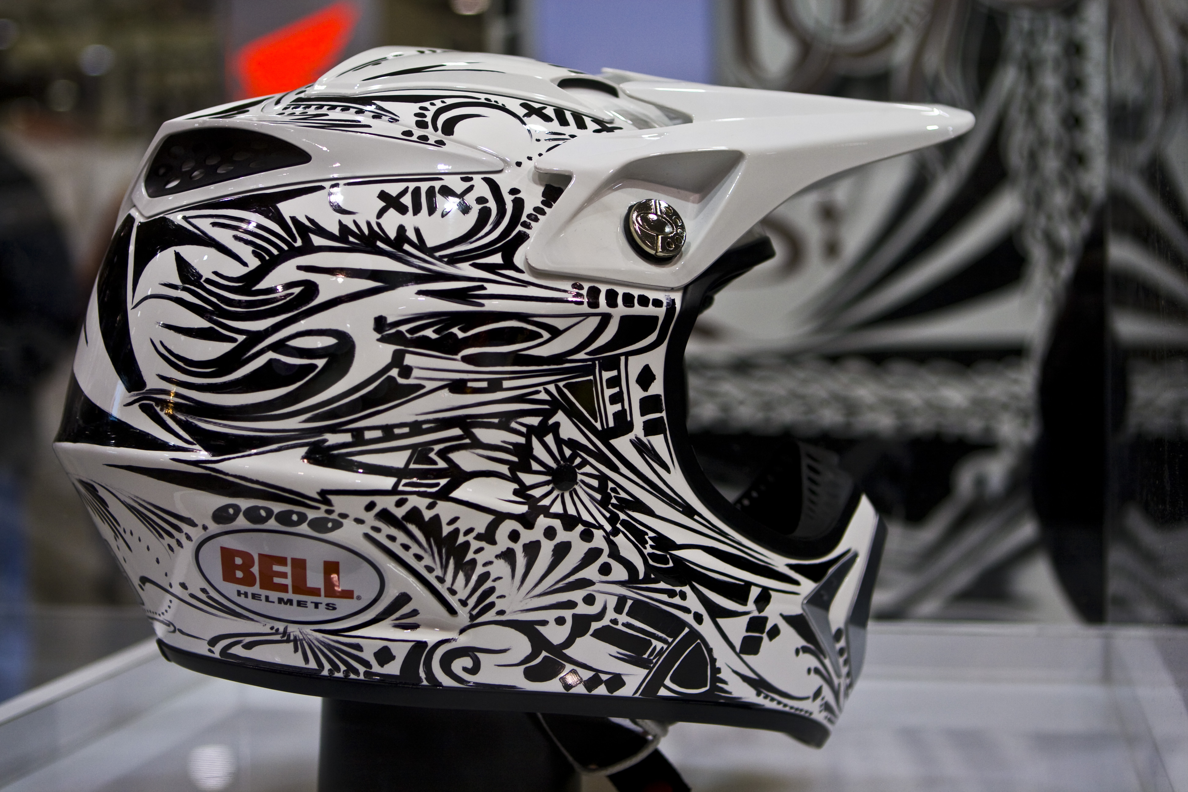 a designer custom helmet on display at the show